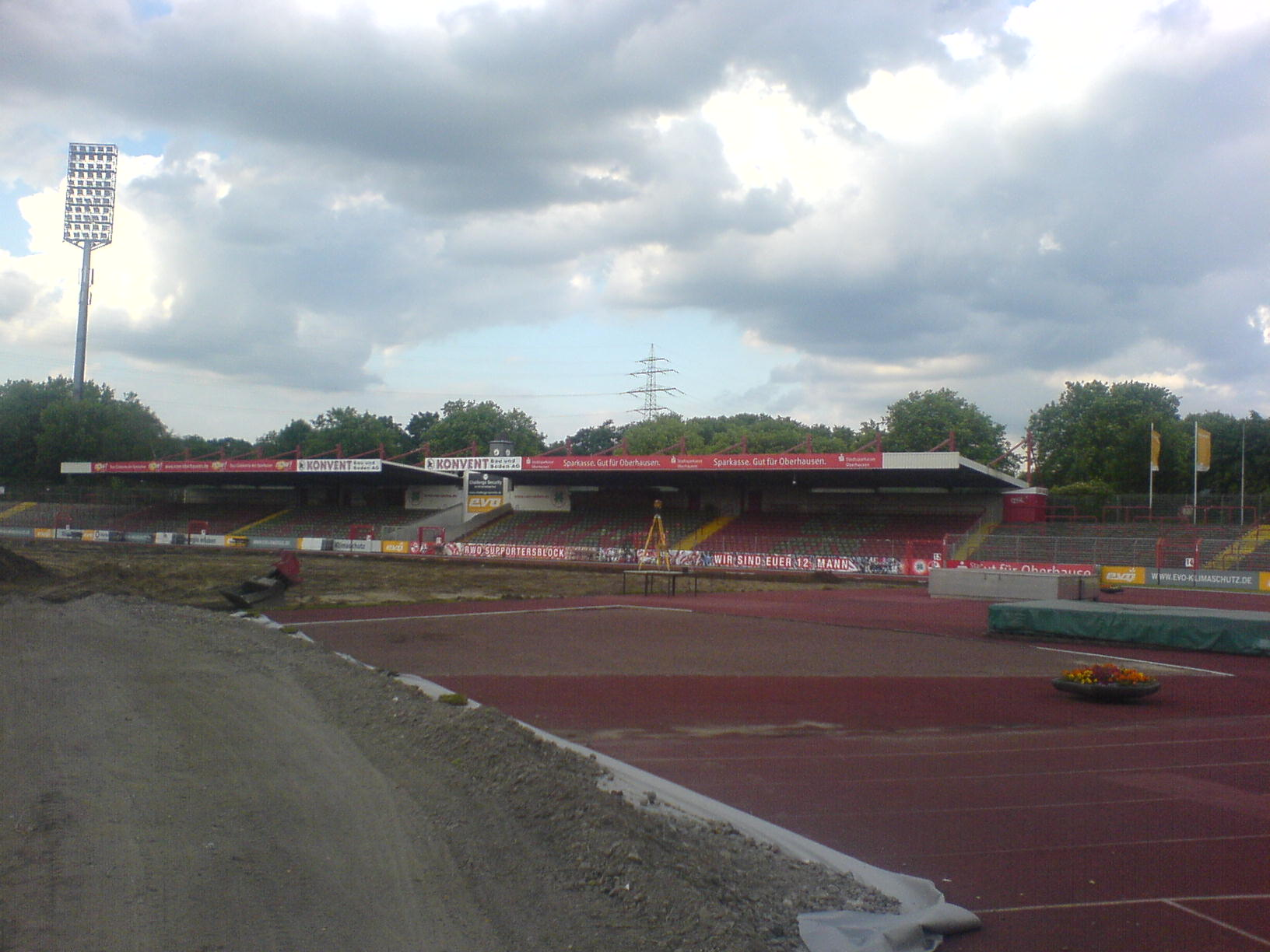 Stadion Niederrhein Oberhausen, under-soil heating construction